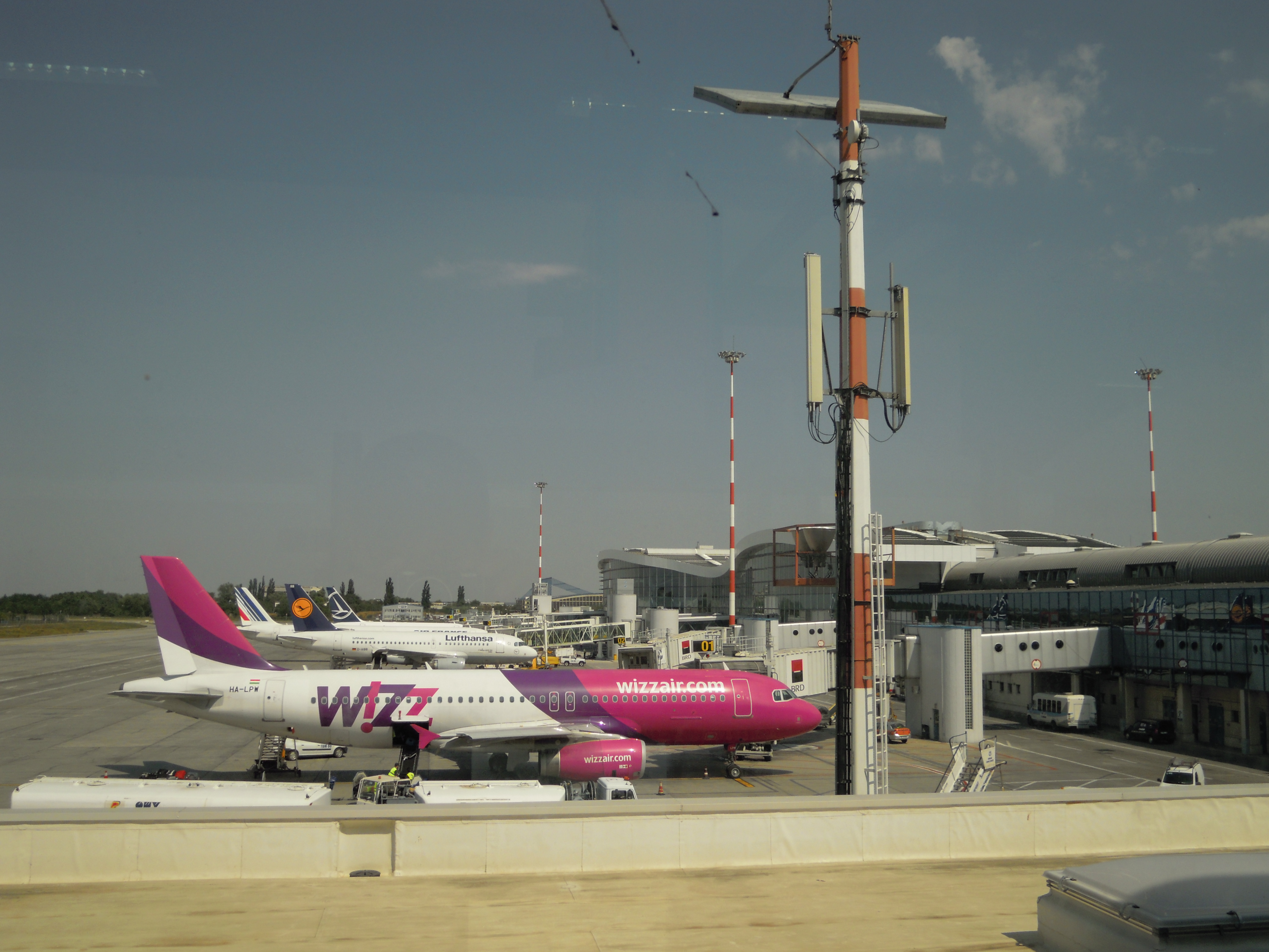 Various airlines at OTP departures terminal